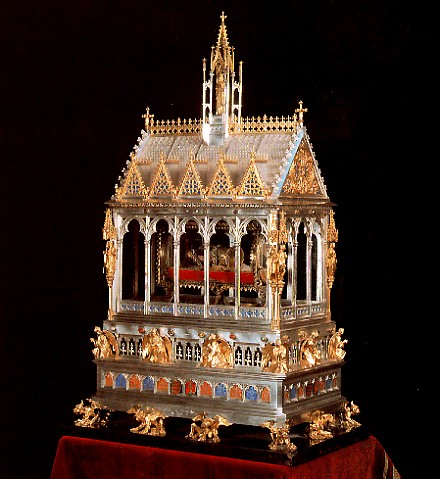 Saint I Stephen King of Hungary' Holy right hand.